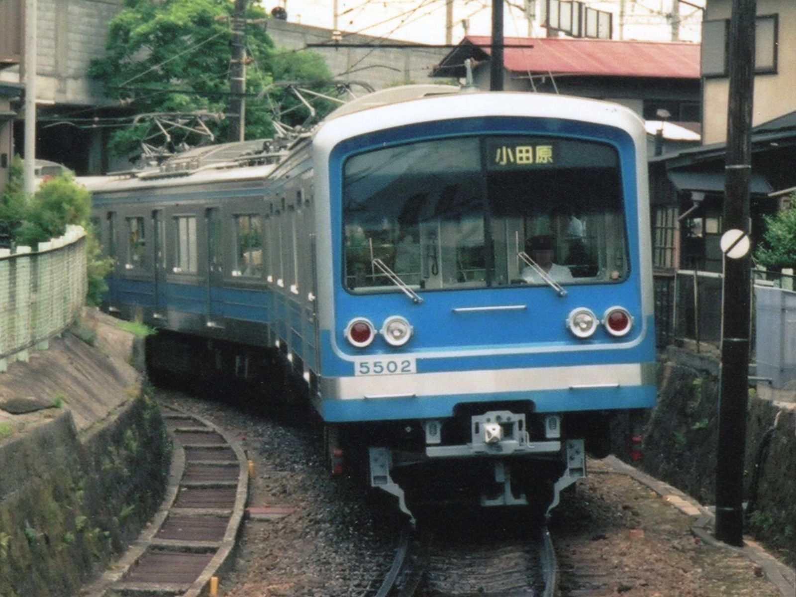 Isuhakone Railway EMU Type 5000 at Midoricho Sta.